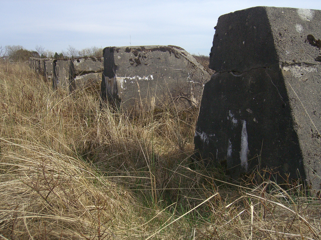 German anti-tank installations - «Hitler teeth» - from WWII at Brusand, Jæren, Norway. Their purpose were to avoid an invasion from the sea on the wide, sandy beaches of Jæren.